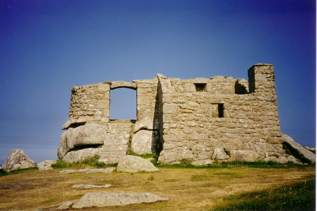 Old Blockhouse - side view